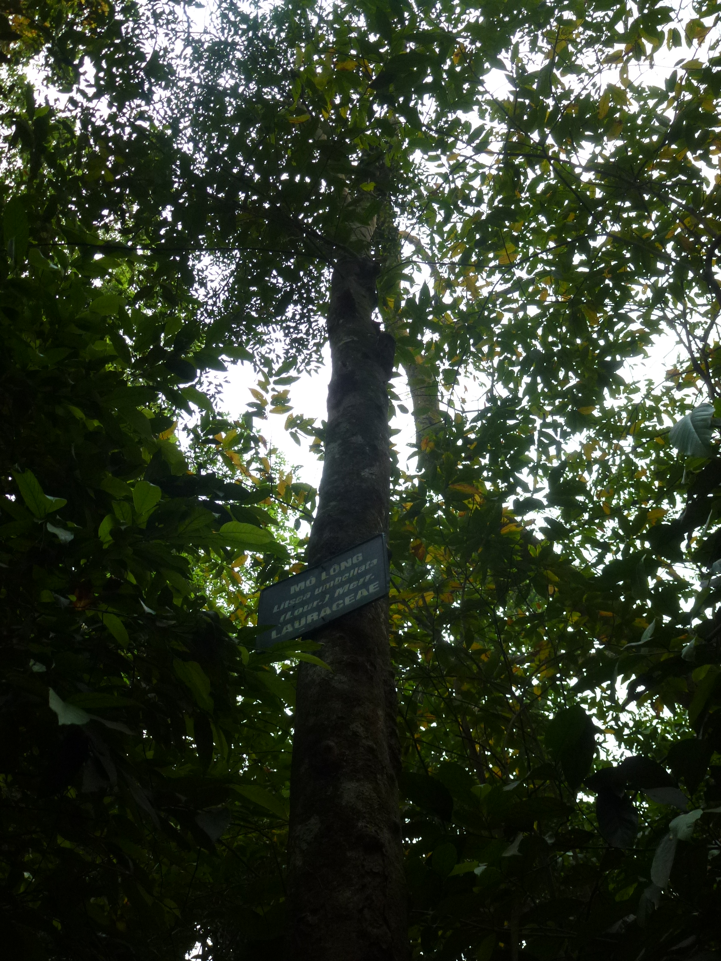 Litsea umbellata at Hùng Temple, Vietnam